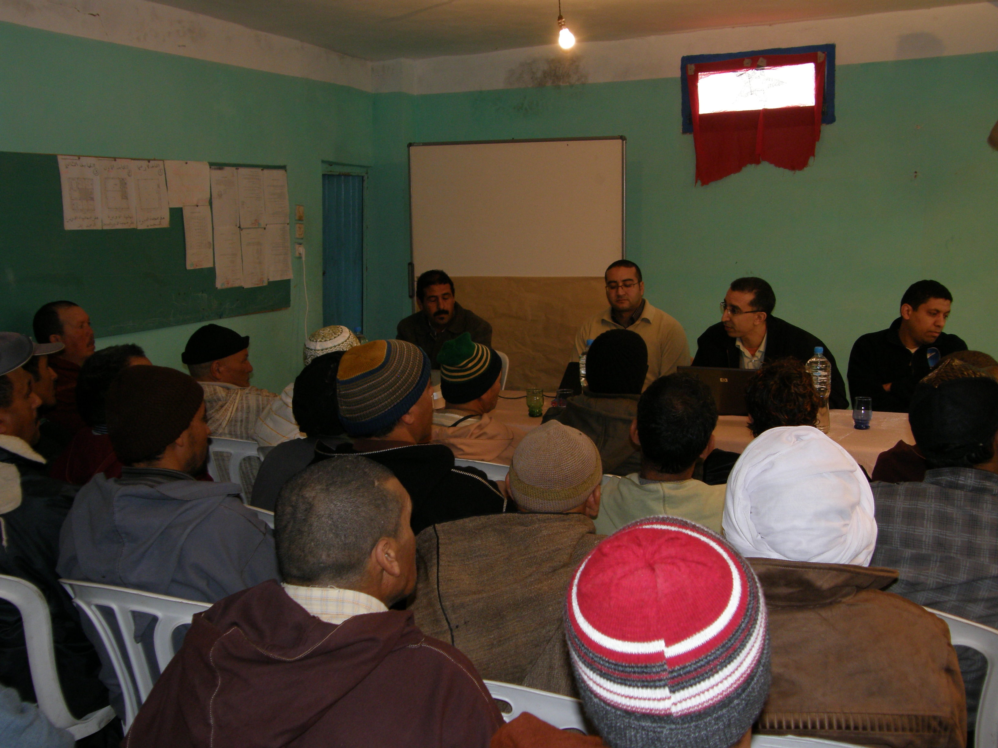 Training on cooperatives for fishermen at Souss-Massa National Park, Morocco